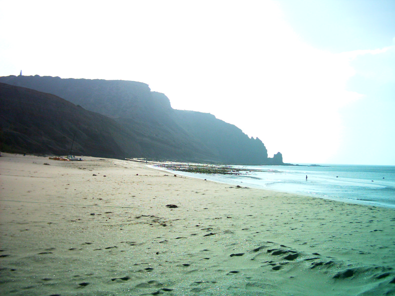 Praia da Luz (Light Beach)(Algarve, Portugal) at summer